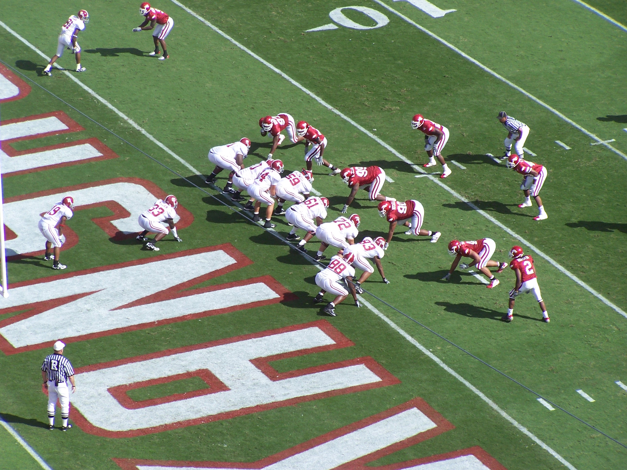 This is a picture of a football game in 2006, between w:2006 Arkansas Razorbacks football team Arkansas and University of Alabama Alabama. Arkansas won in double overtime, 23-24. This is a picture of a football game in 2006, between Arkansas and Alabama. Arkansas won in double overtime, 23-24.